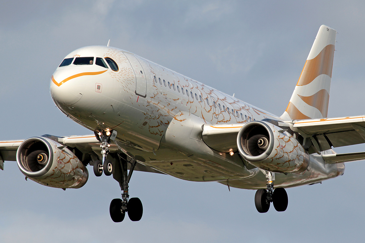 British Airways Airbus A319-131 in the Olympics dove livery landing at London Heathrow Airport